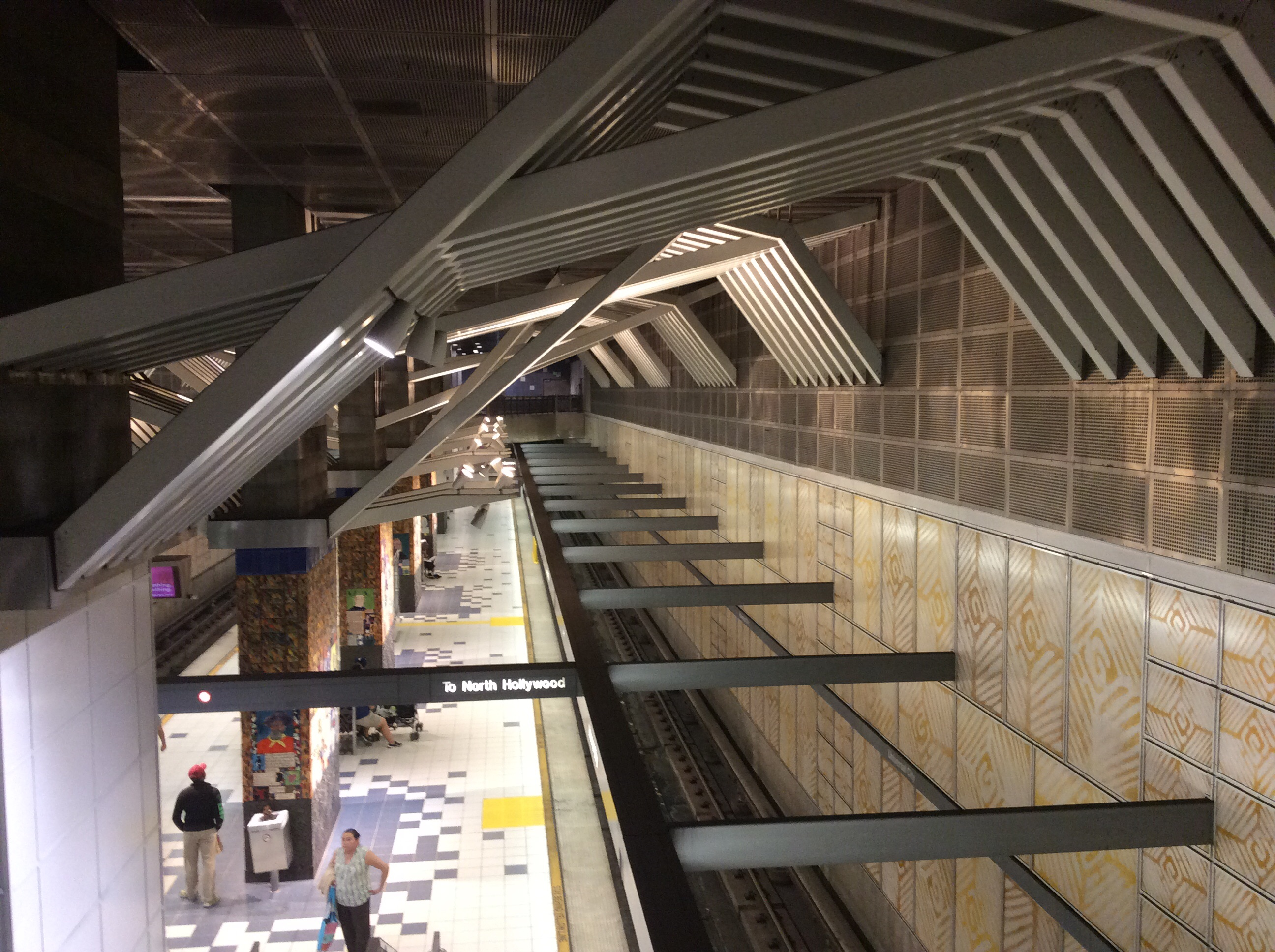 The view of the lower floor (platform) from the upper floor of Universal City/Studio City Station.